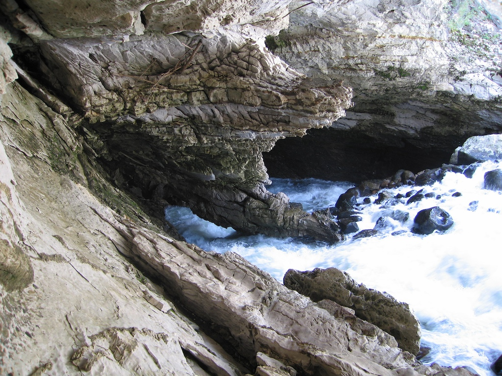 Sinks Canyon State Park, Wyoming. The Popo Agie River 'sinks' into the cavern. Photographed under cavern overhang.